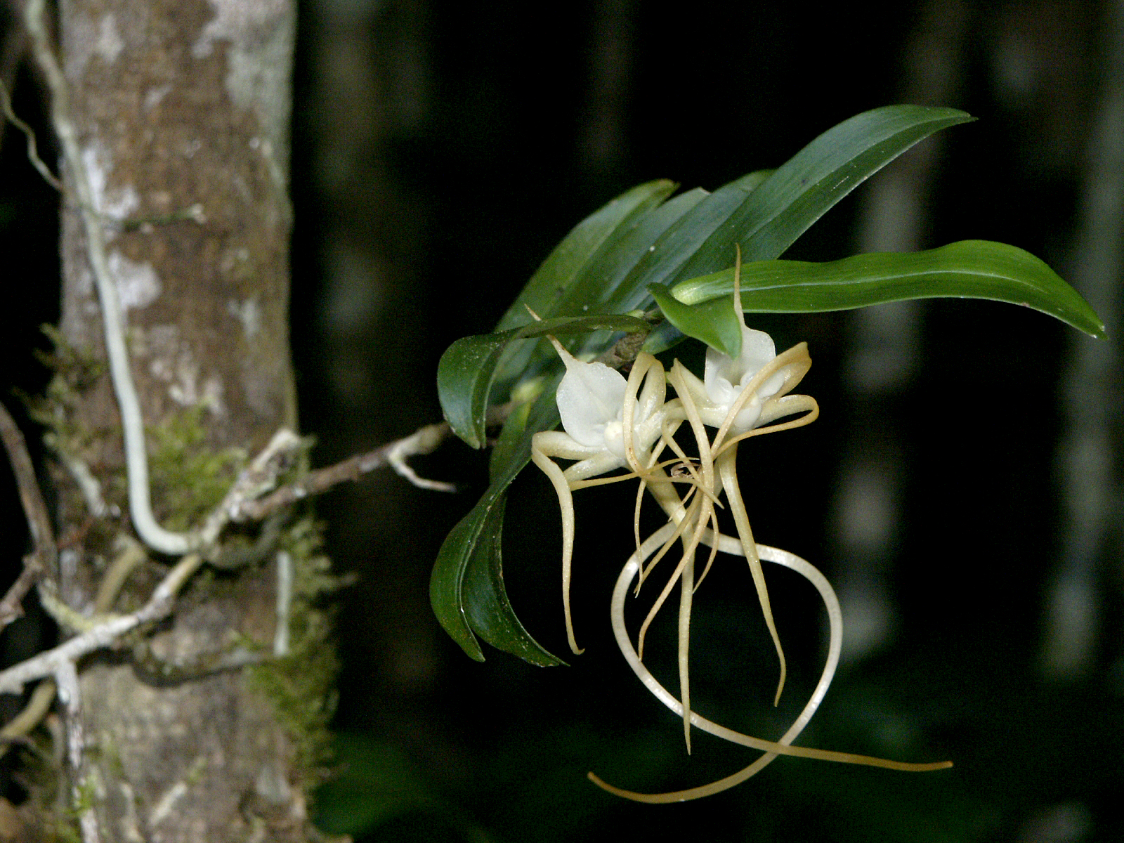 Angraecum conchoglossum, Analamazaotra Reserve, Madagascar Oct 2003. This is for all my fellow Angraecoid lovers (you know who you are!) -- some photos from a field trip to Madagascar in 2003.